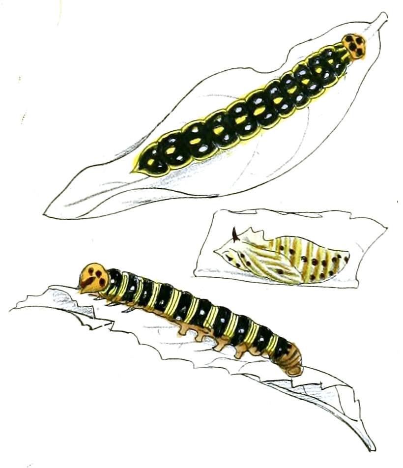 Choaspes benjaminii (larva and pupa)